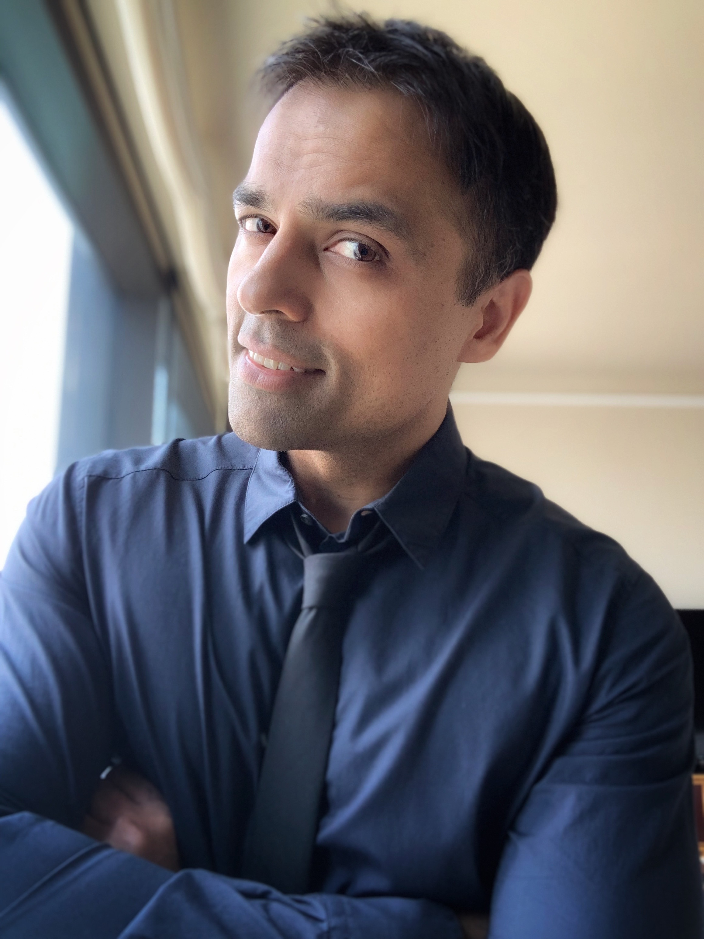 Gurbaksh Chahal, Chairman & CEO, of RedLotus in Hong Kong HQ.